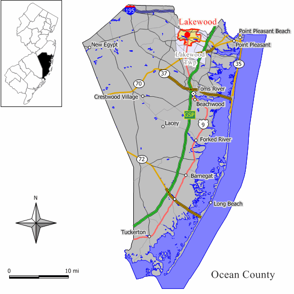 Source: Jim Irwin Original work by Jim Irwin, December 2005.